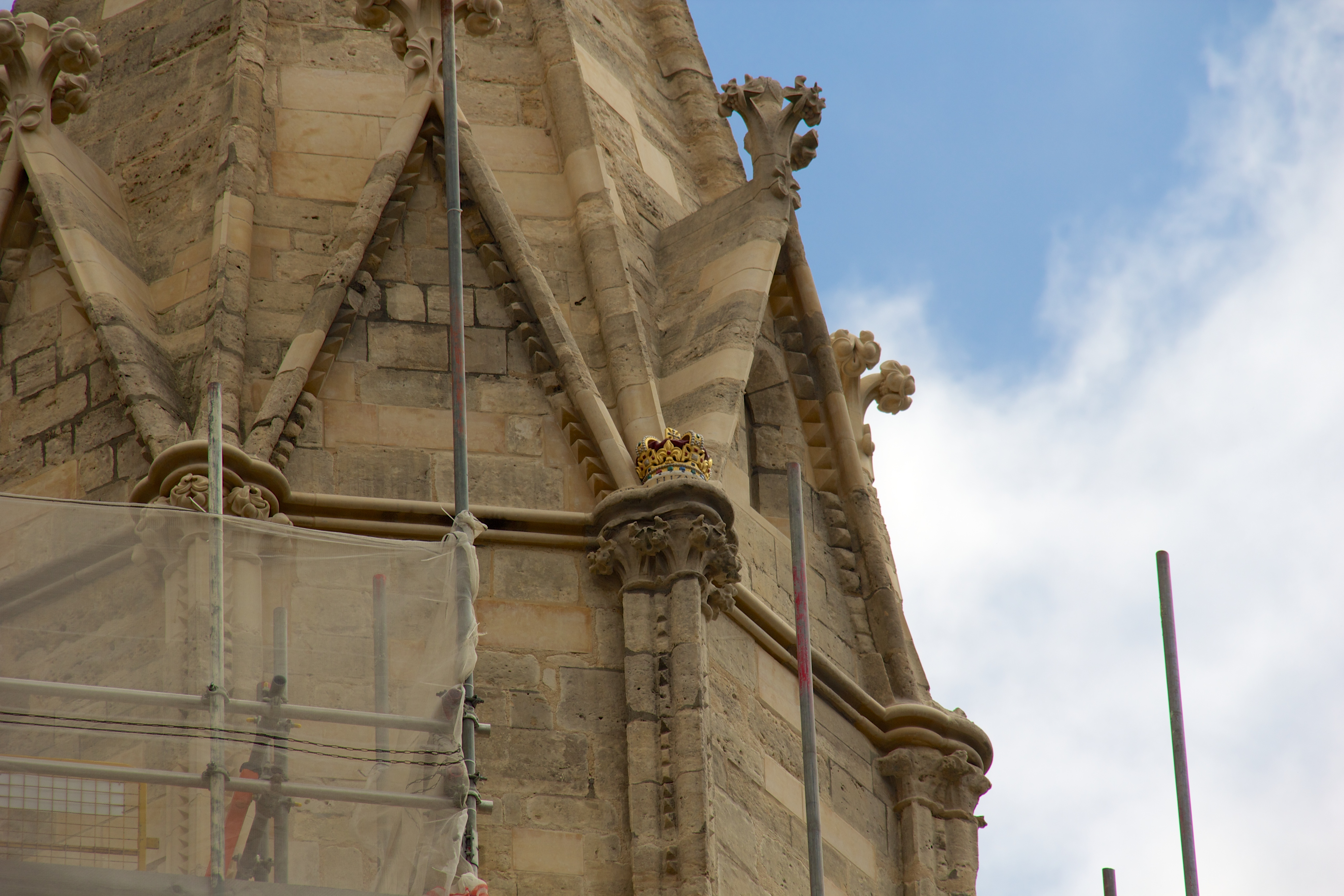 Detail of Lincoln Cathedral.